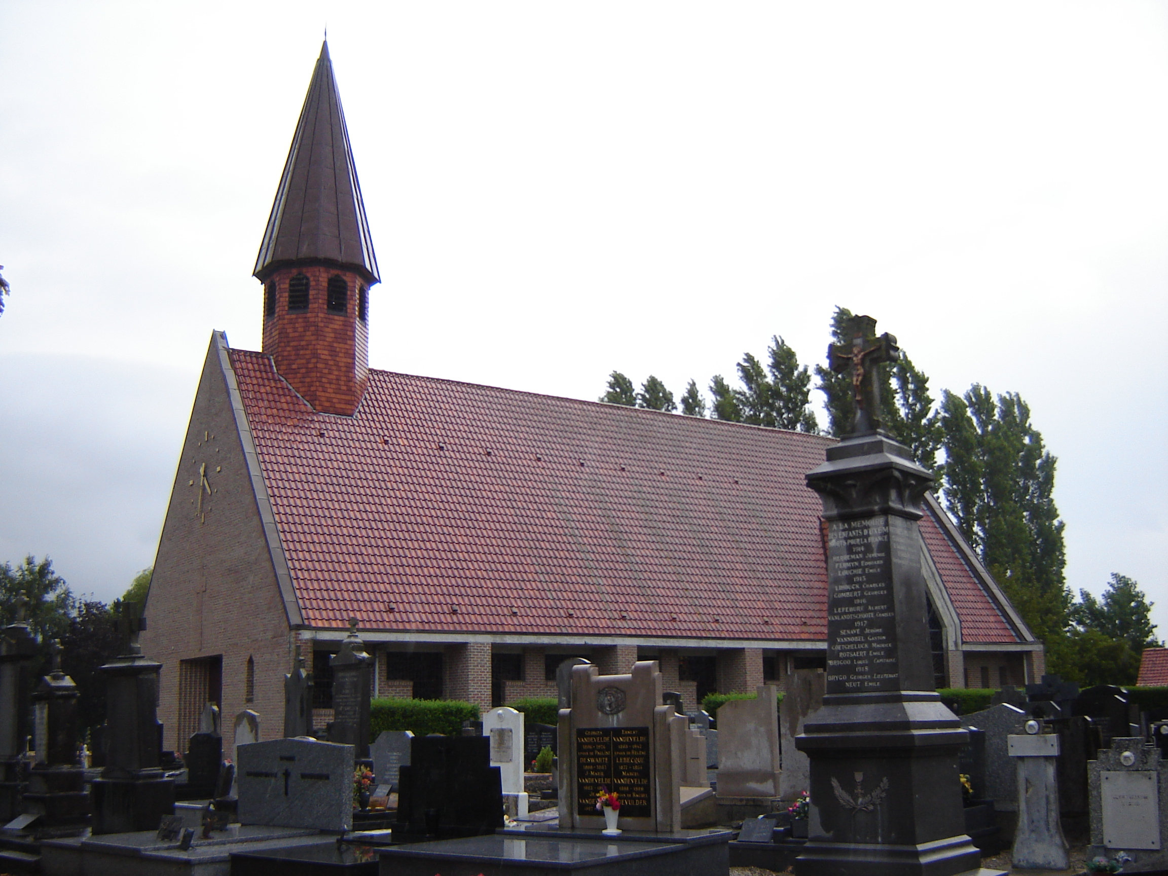 Church of Saint Amand in Uxem. Uxem, Nord, Nord-Pas-de-Calais, France